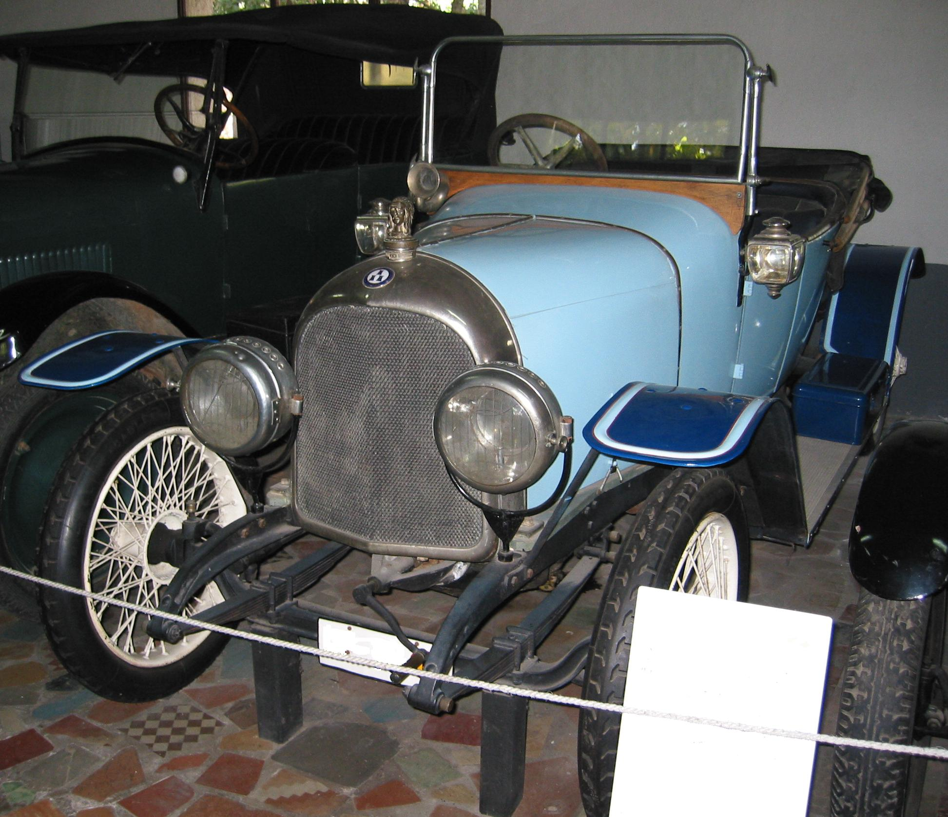 Rolland-Pilain 1914 (Country of origin: France)